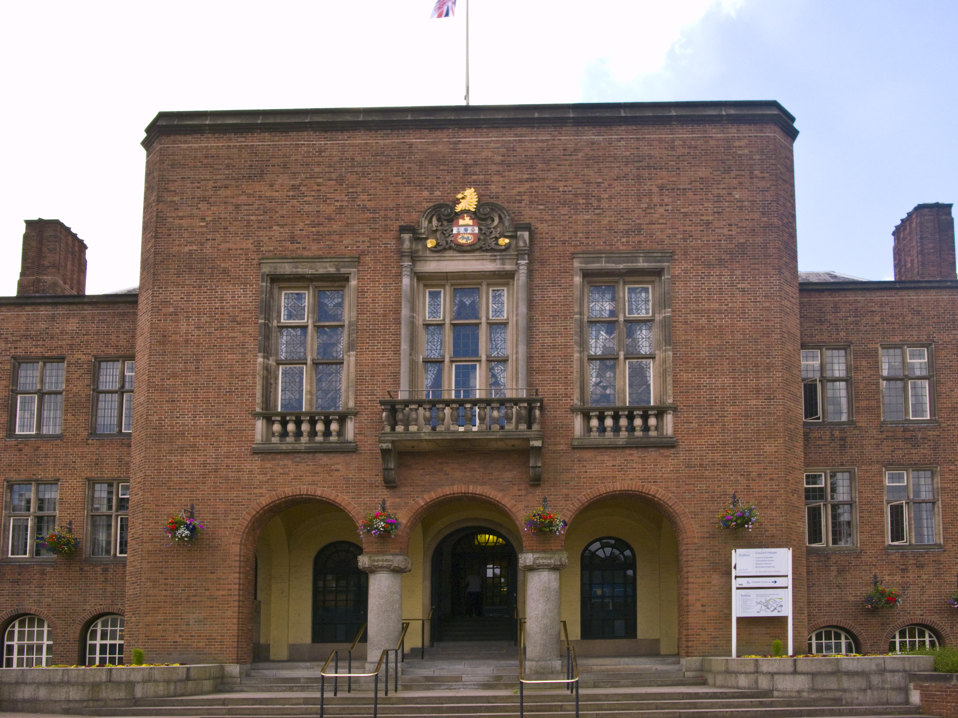 Dudley Council House with Dudley coat of arms relief by William Bloye, 1928, in Priory Street, Dudley, West Midlands, England.